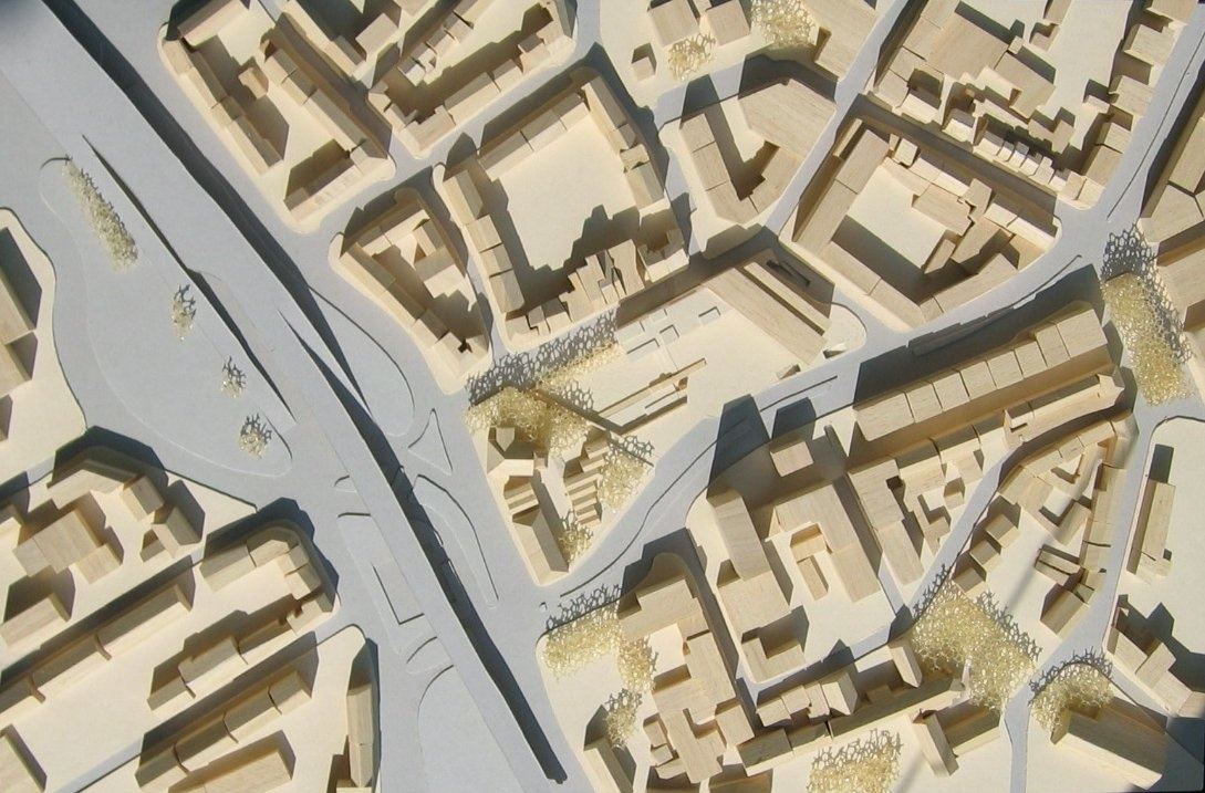 own drawing for the article Modell (Architektur) in the German wikipedia. See also: Image:MassenmodellPC.jpg